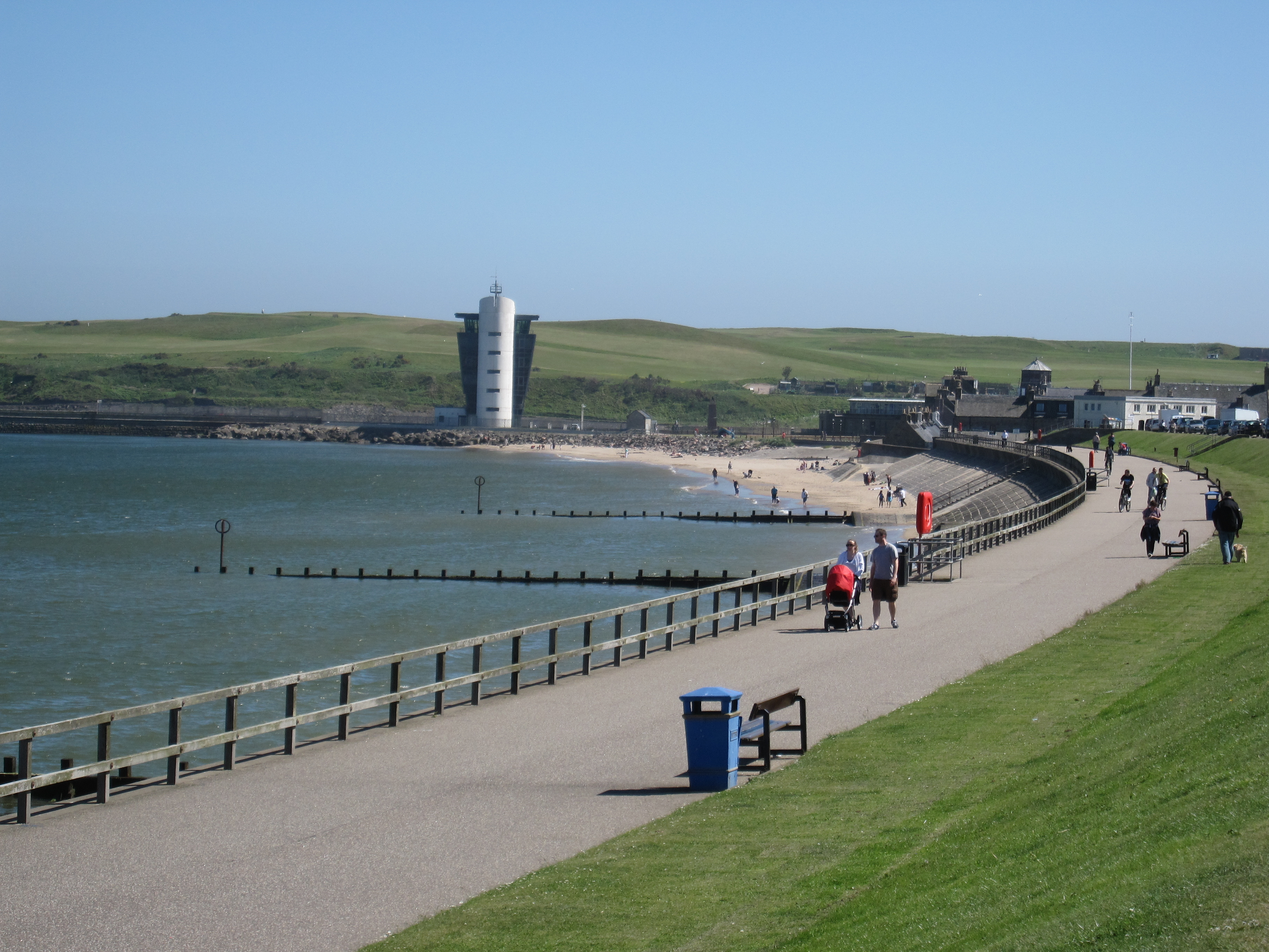 Aberdeen Port Control Tower, Esplanade at the southern tip of Aberdeen's beach, at high tide. Building shown is Aberdeen Harbour control tower Aberdeen